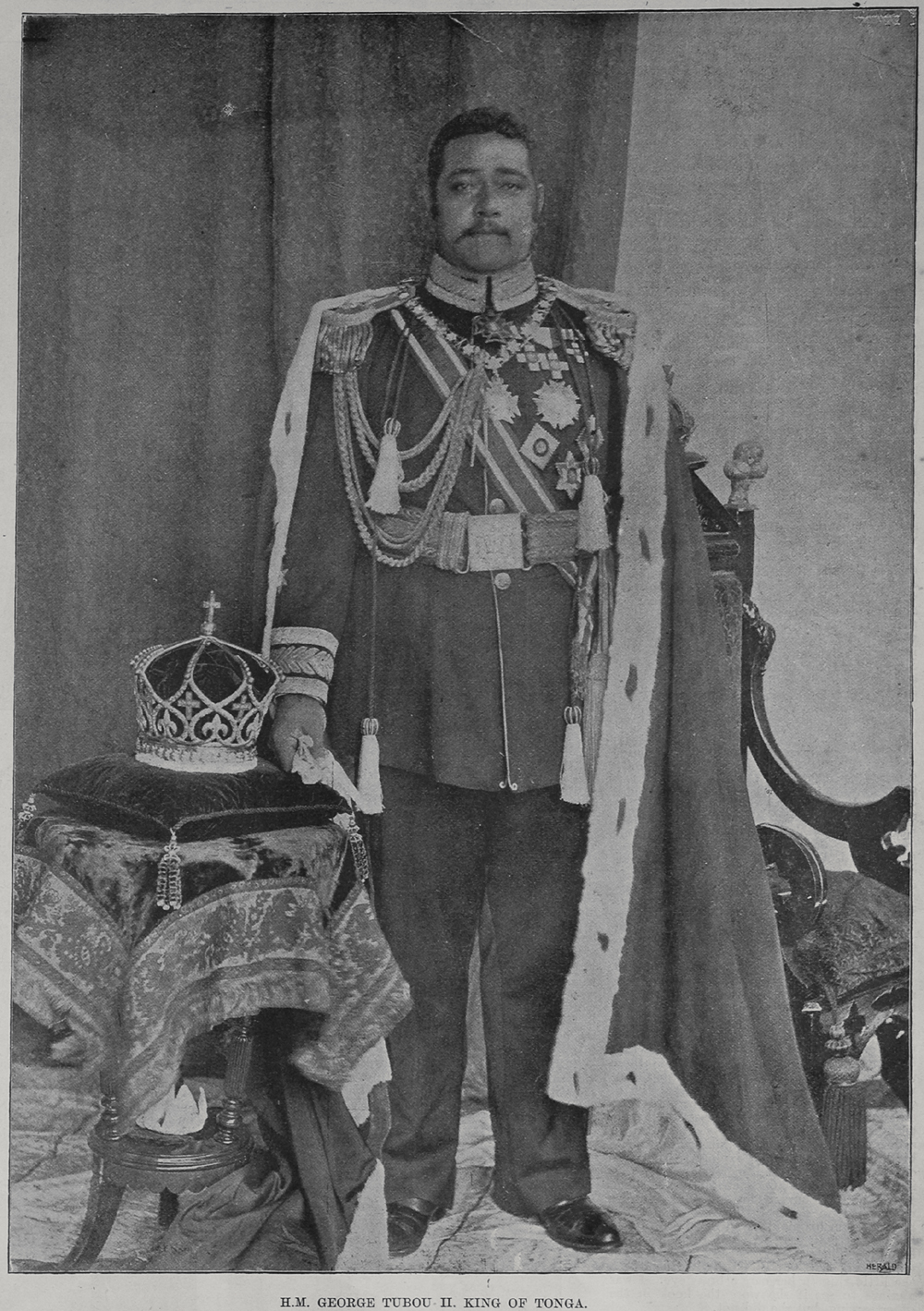 H.M. GEORGE TUBOU II. KING OF TONGA. Taken from the supplement to the Auckland Weekly News, 11 August 1899.